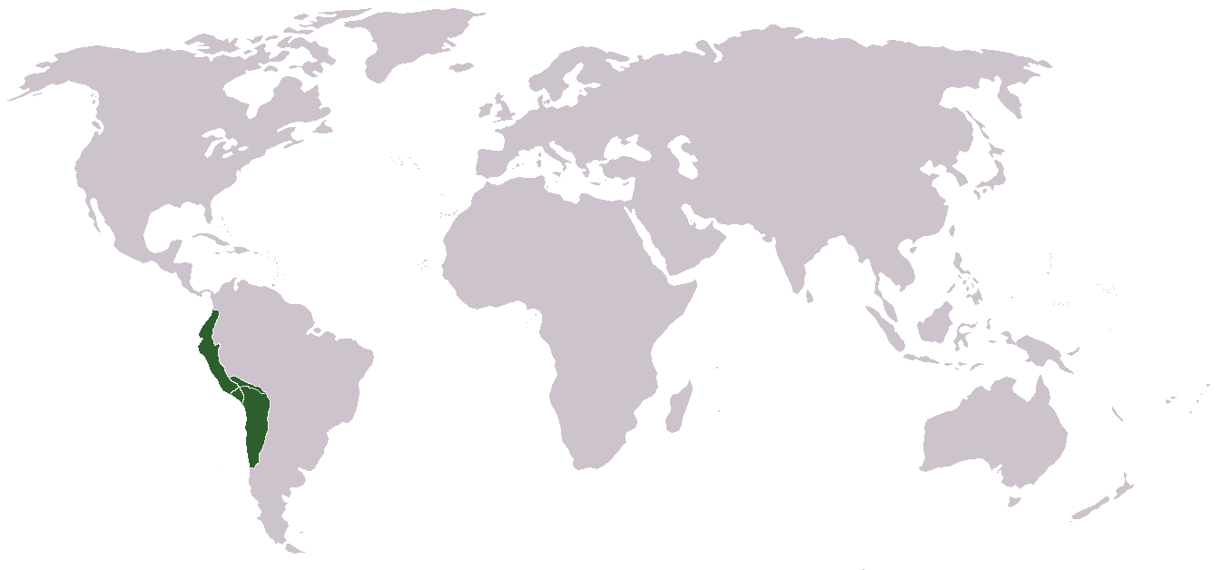 Locator map of the Inca Empire.